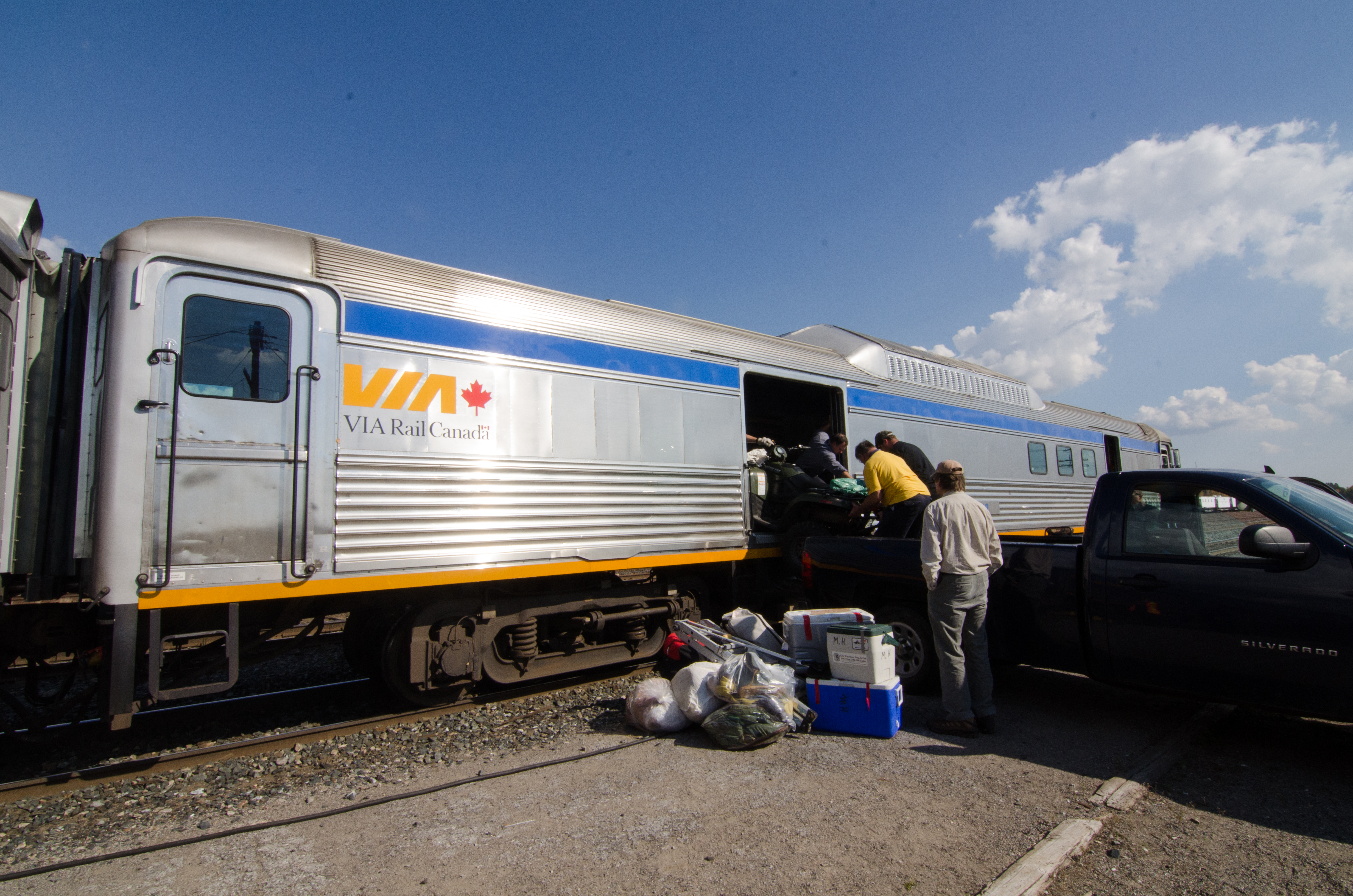 Unloading ATV from RDC Budd